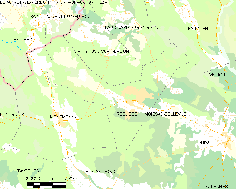 Map of French municipality Régusse